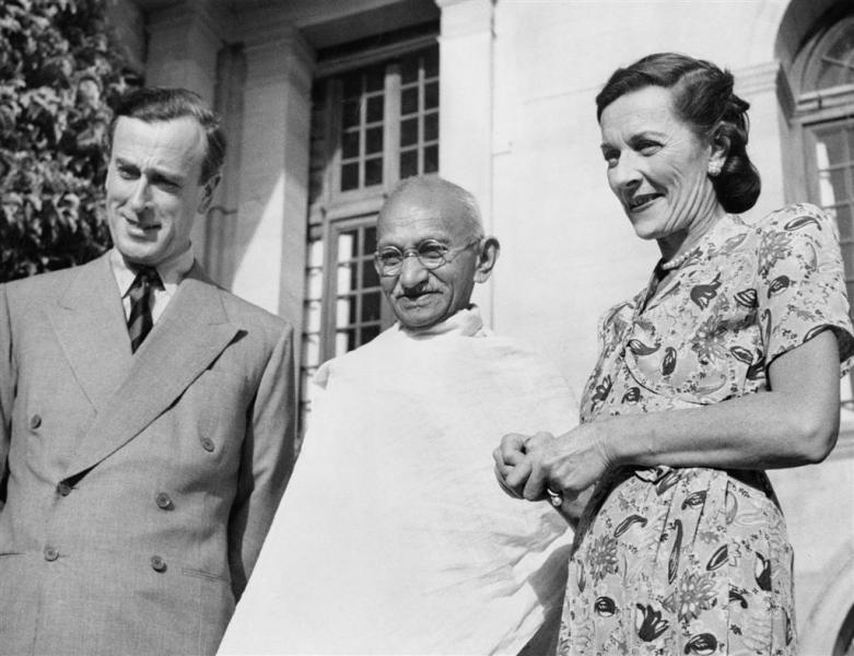 Viceroy of India: Lord and Lady Mountbatten with Mahatma Gandhi